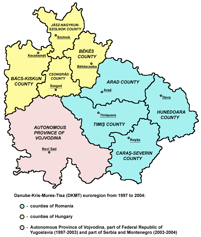 map of Danube-Kris-Mures-Tisa (DKMT) euroregion from 1997 to 2004.